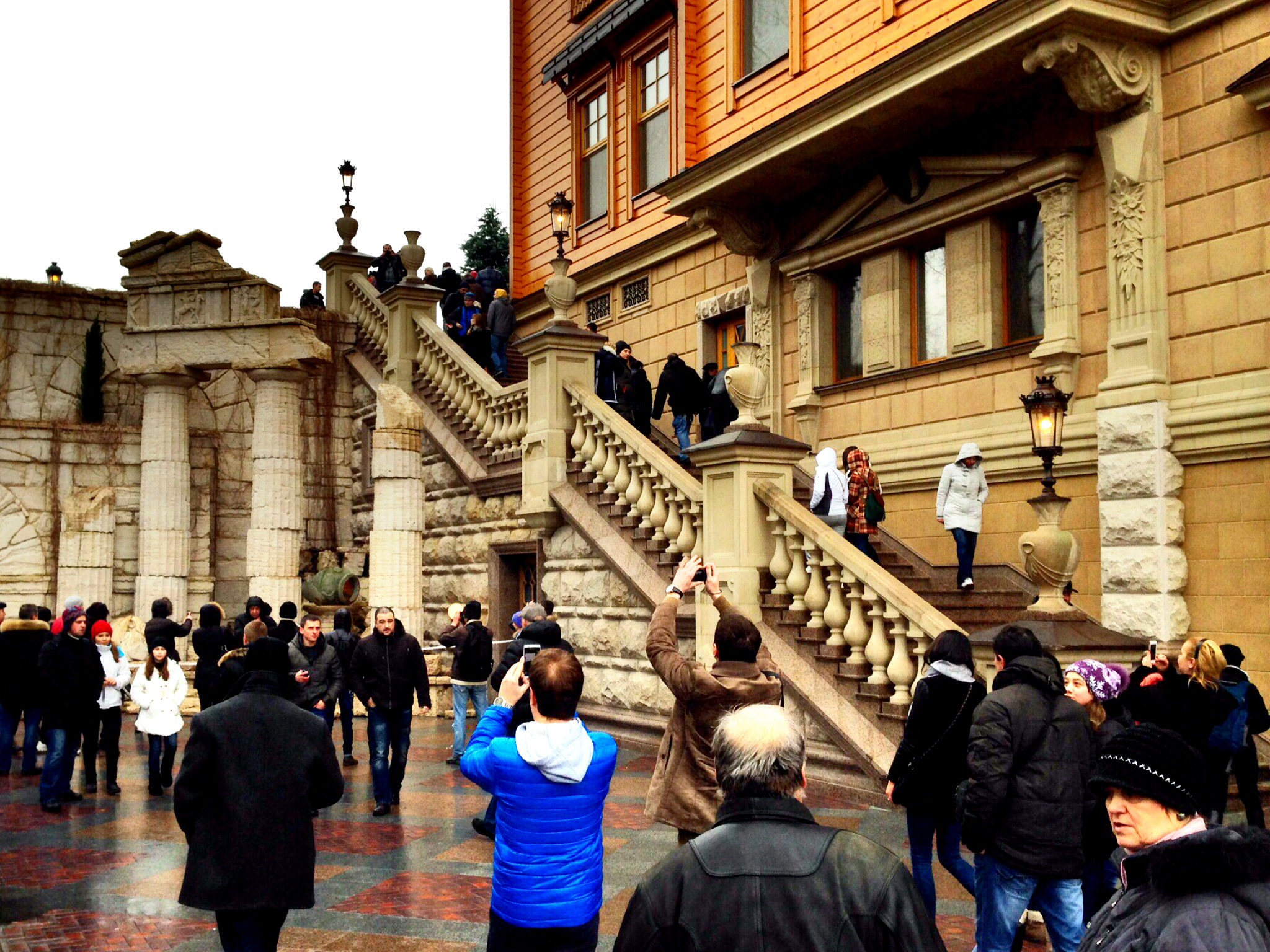 Stairs on the side of Honka in Mezhyhirya